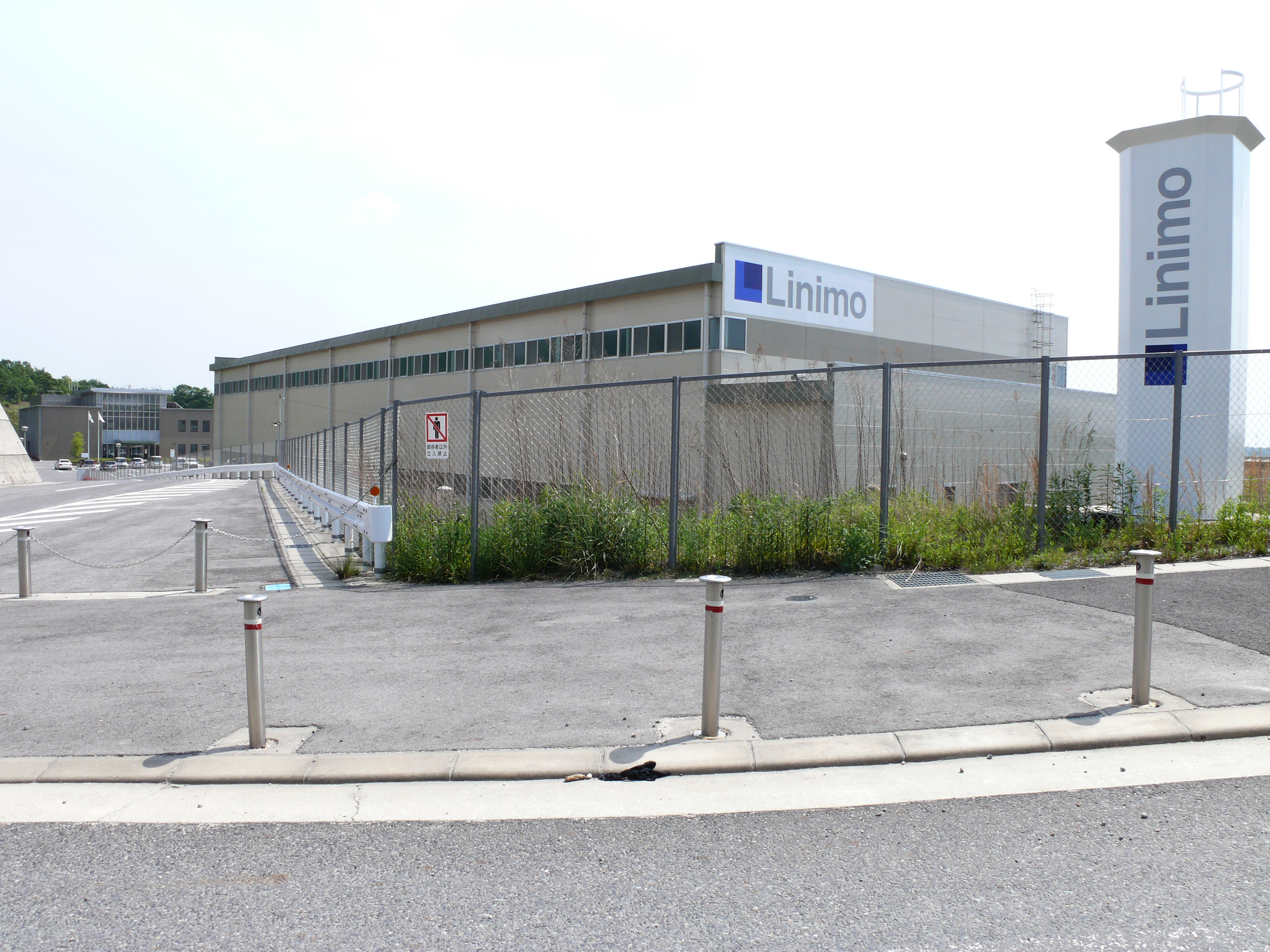 Aichi Rapid Transit Co Ltd.